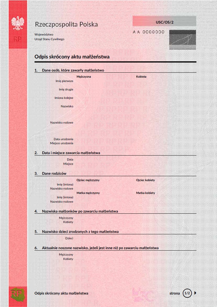 Polish abbreviated marriage certificate, new version since 2015